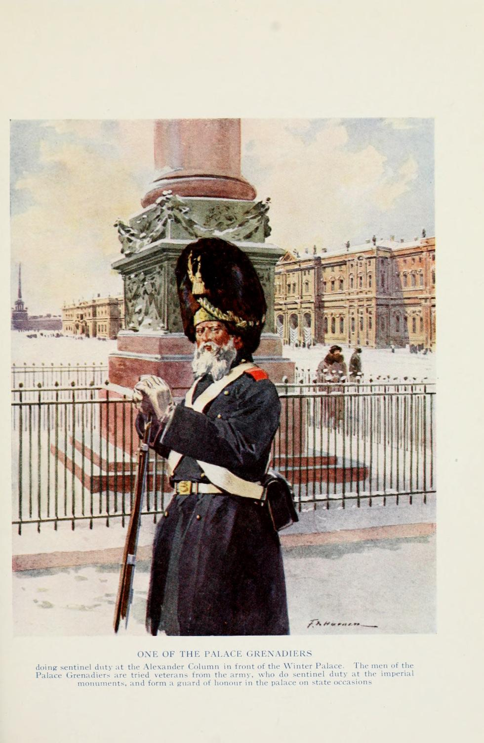 One of the Palace Grenadiers doing sentinel duty at the Alexander Column in front of the Winter Palace. Painted by Frédéric de Haenen